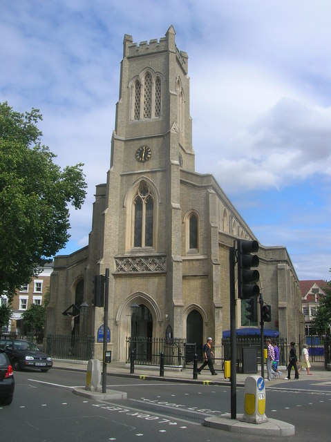 St John's parish church, North End Road, Fulham, London SW6, seen from the southwest